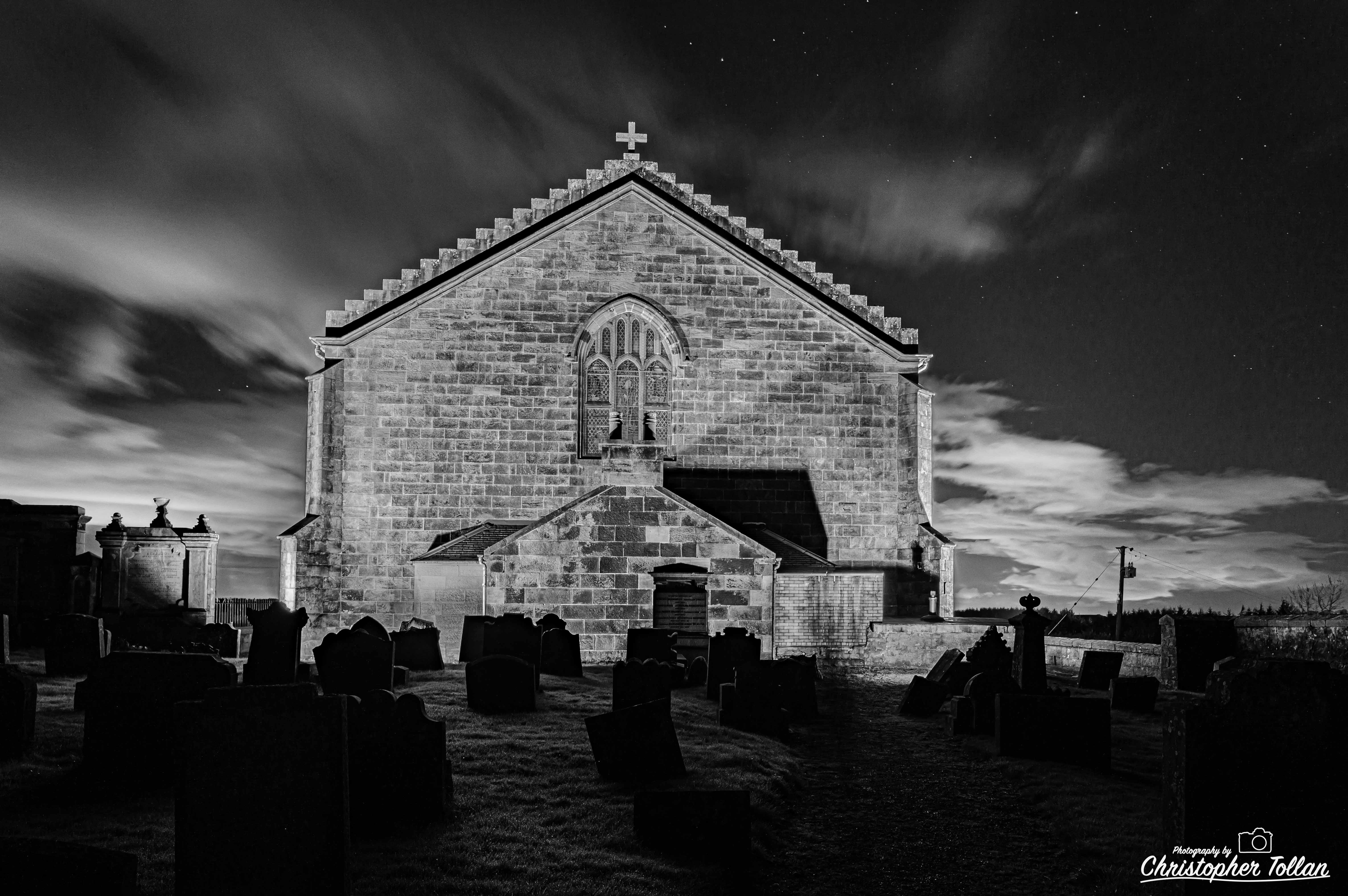 Salsburgh, Hirst Road, Kirk Of Shotts Wikidata has entry Q17826636 with data related to this item.